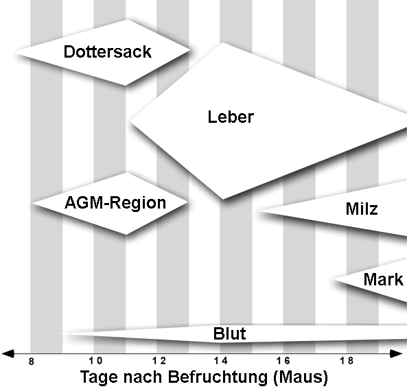 Original figure Legend: Figure 6.An Updated Model Illustrating the Location and Relative Frequencies of Fetal HSCs in the Embryo. HSCs are found constitutively at low numbers in fetal blood following the onset of circulation. Seeding of developing hematopoietic tissues by long-term HSCs is gradual and is not due to a large influx of cells. The large decline in HSC numbers seen in the fetal liver following 14 dpc is most likely the result of differentiation signaled by the developing hepatic environment rather than a timed migration to the fetal spleen and bone marrow. HSCs are hematopoietic stem cells. This diagram shows the situation in the mouse embryo.